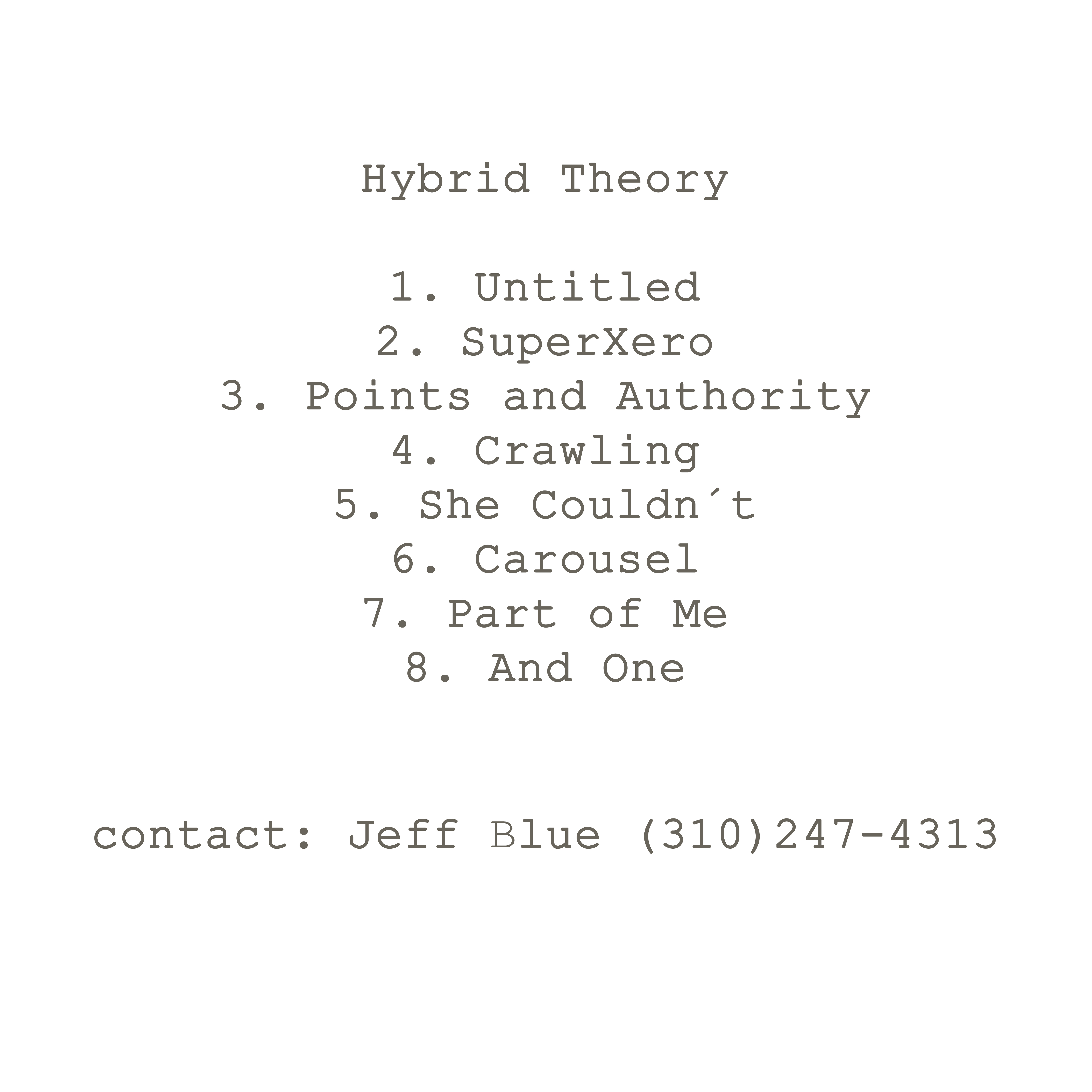 Hybrid Theory 8-Track Demo